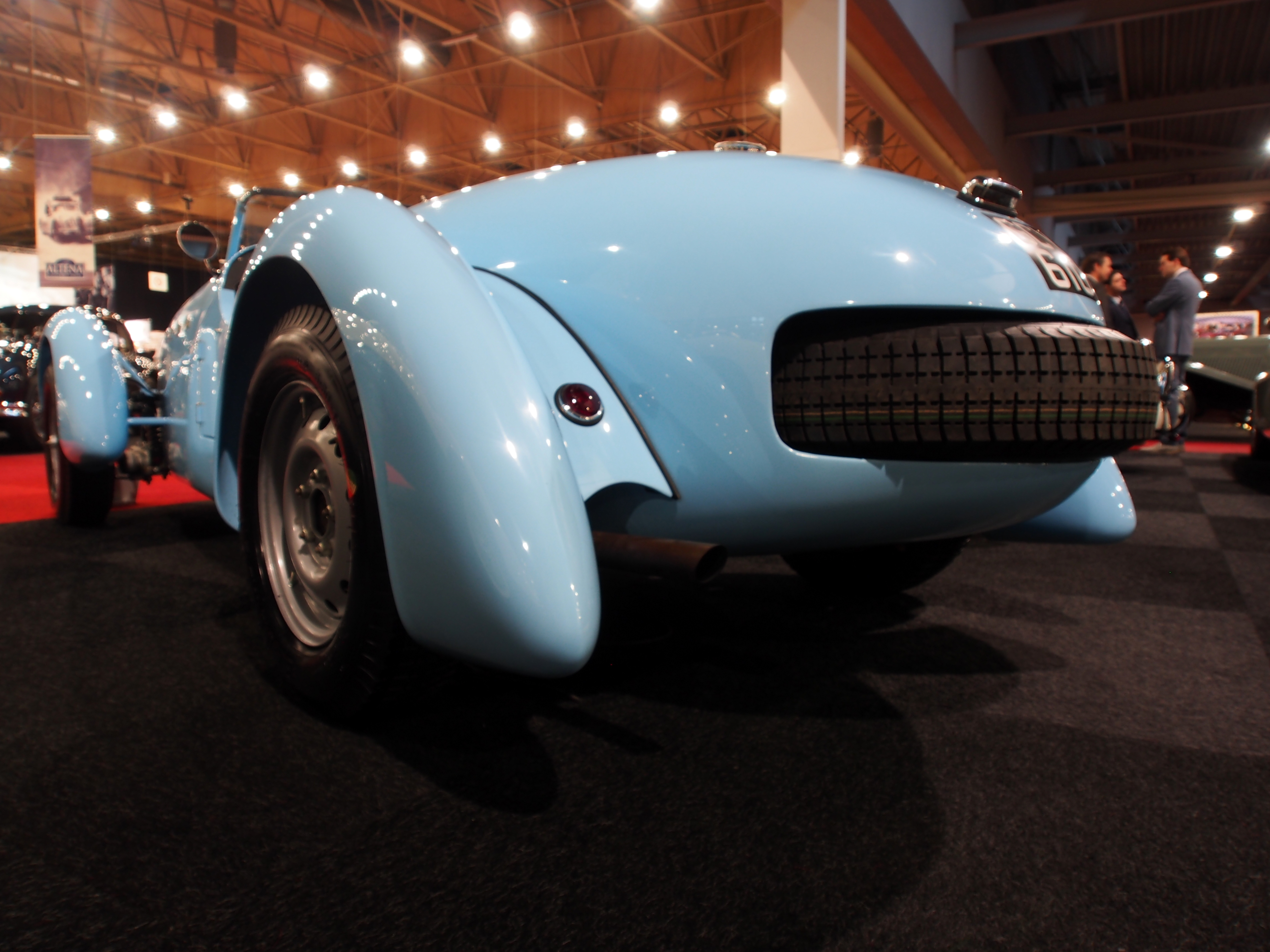 Photographed in Maastricht, The Netherlands.